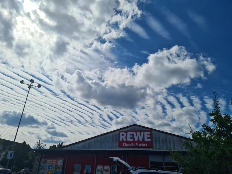 Waveclouds in Germany August 2020